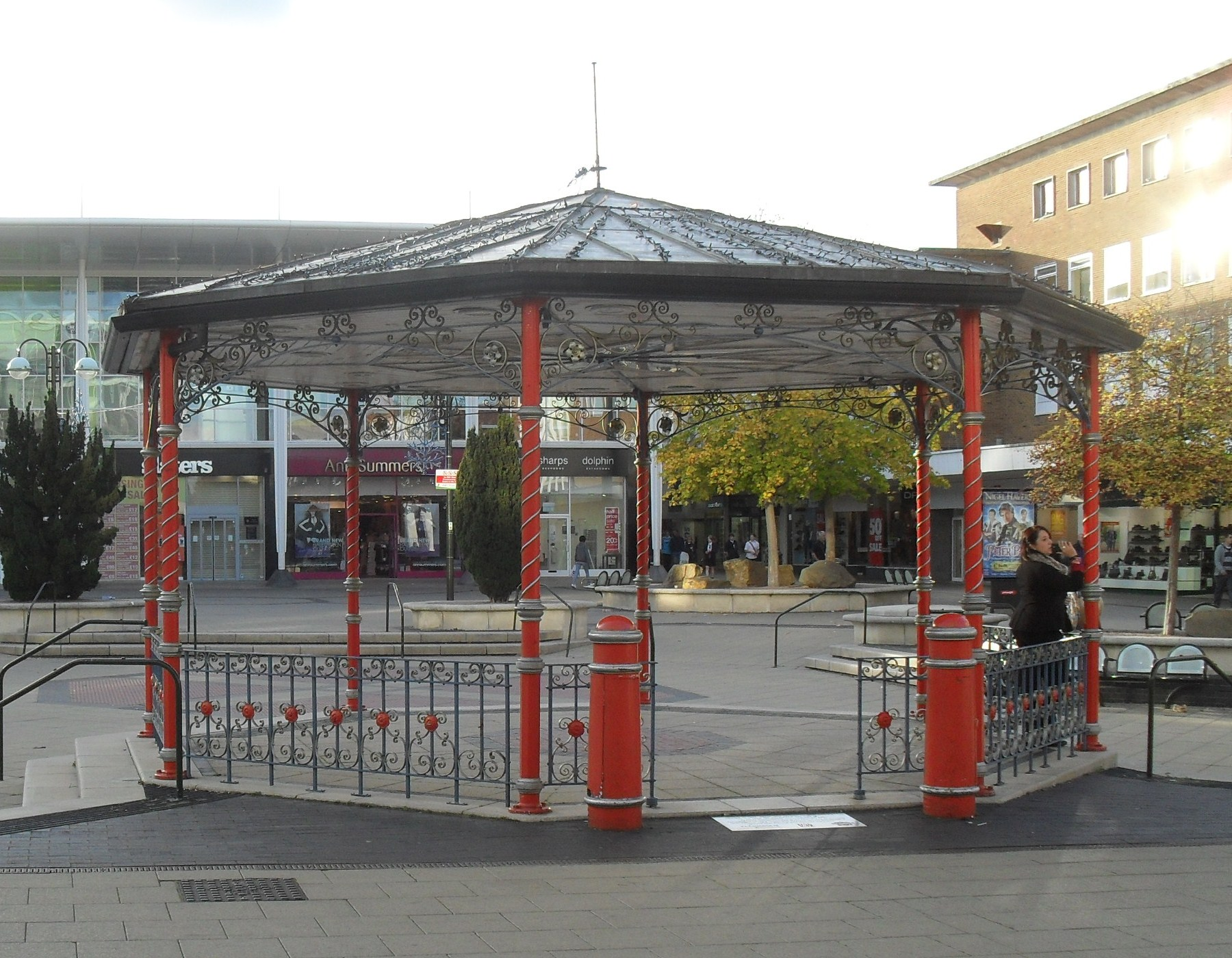 Bandstand in Queen's Square, Crawley, Borough of Crawley, West Sussex, England. One of the borough's locally listed buildings. This was moved from the former Gatwick Racecourse.